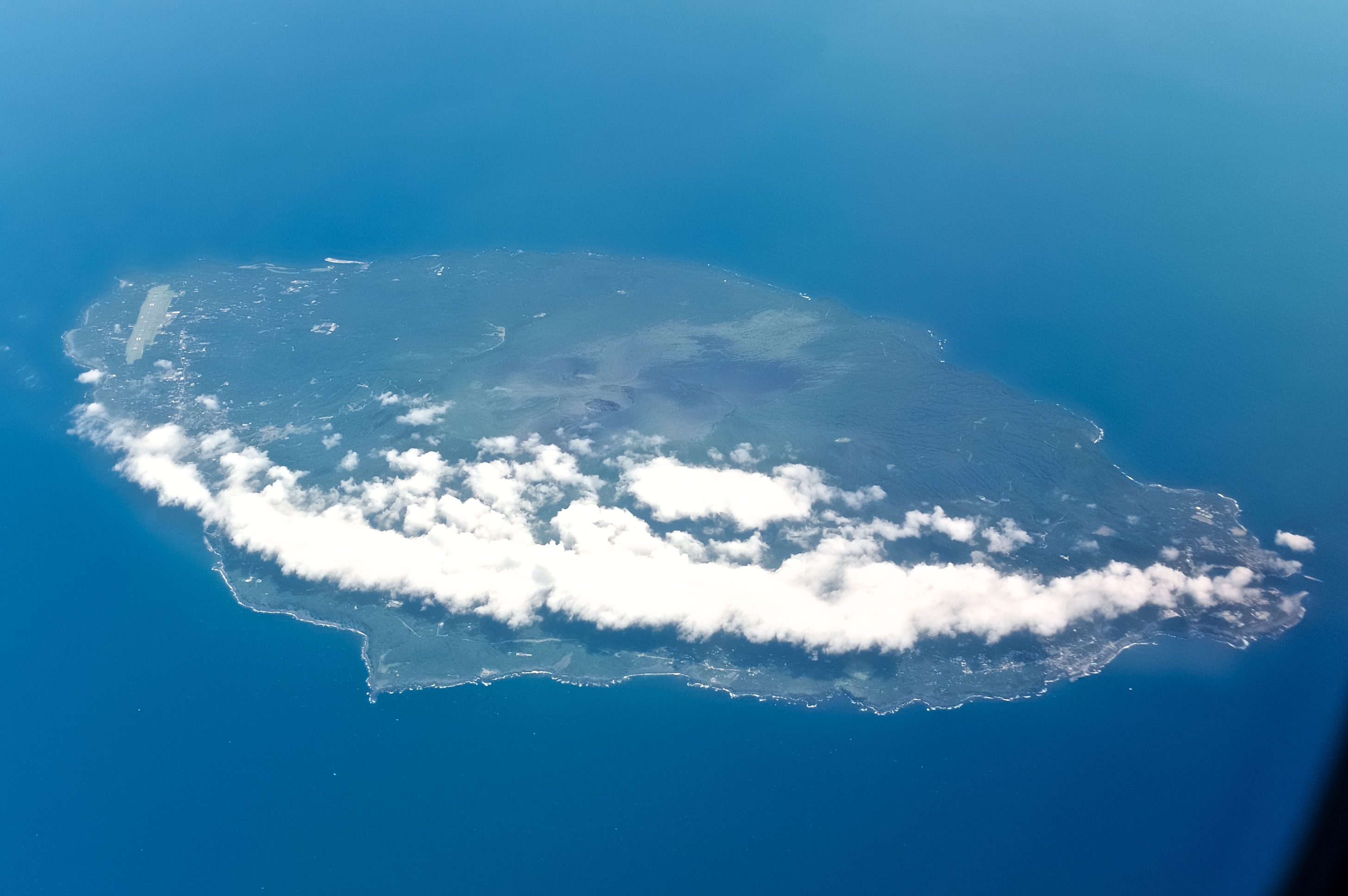 Izu Oshima as seen from the SSW.